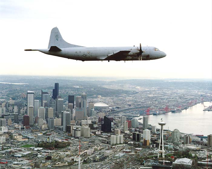 Repository: San Diego Air and Space Museum Archive